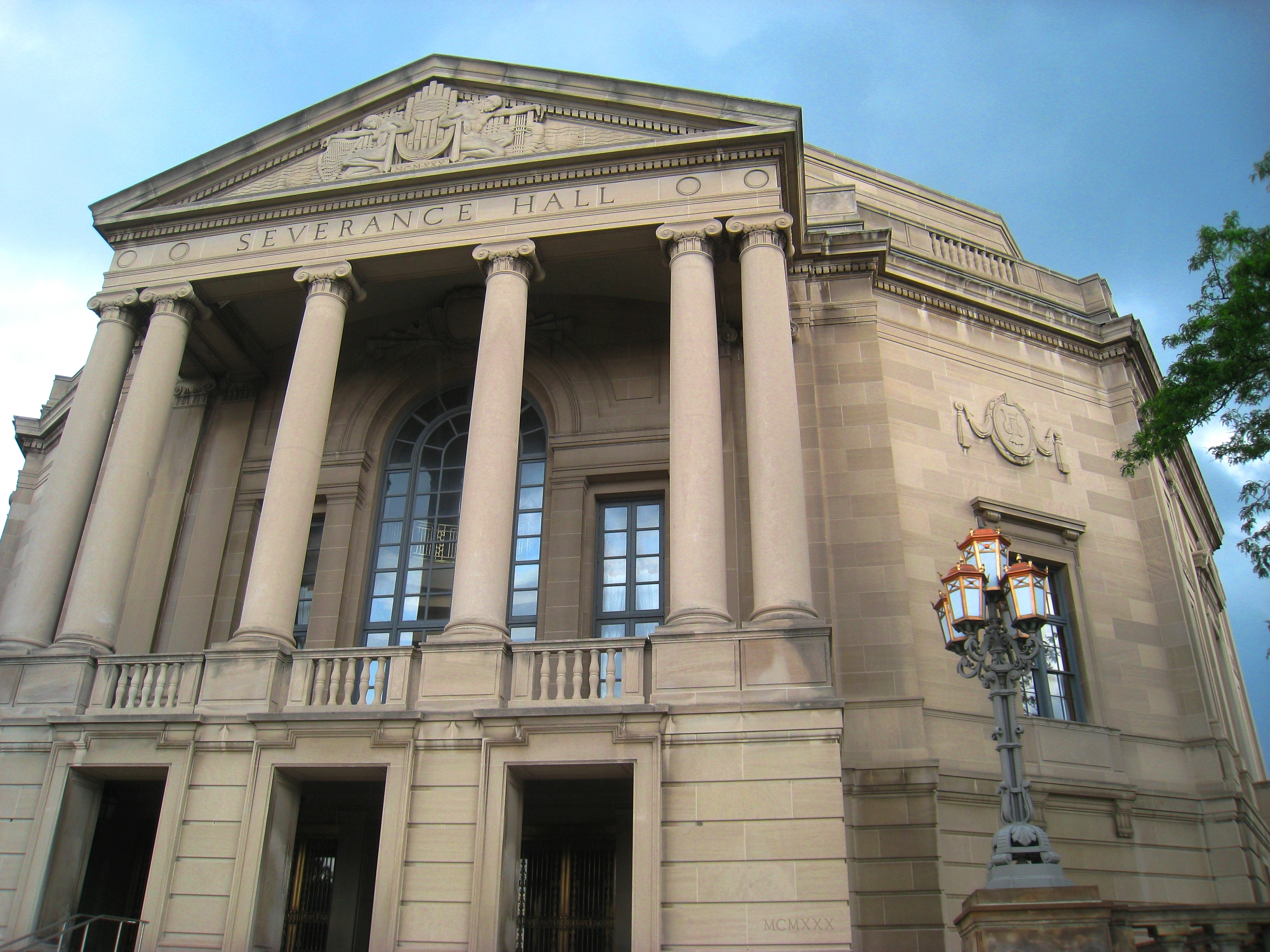 Severance Hall, Cleveland, Ohio, USA.